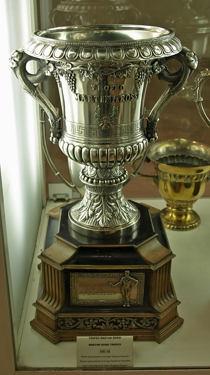 Martini&Rossi Trophy (1951 - 1952)